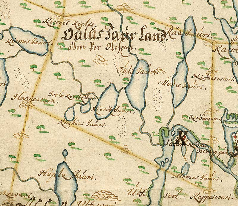 Sami traditional land "Oulusjaur", west of Sorsele in northern Sweden. Part of Jonas Persson Gedda's map of Umeå lappmark from 1671.